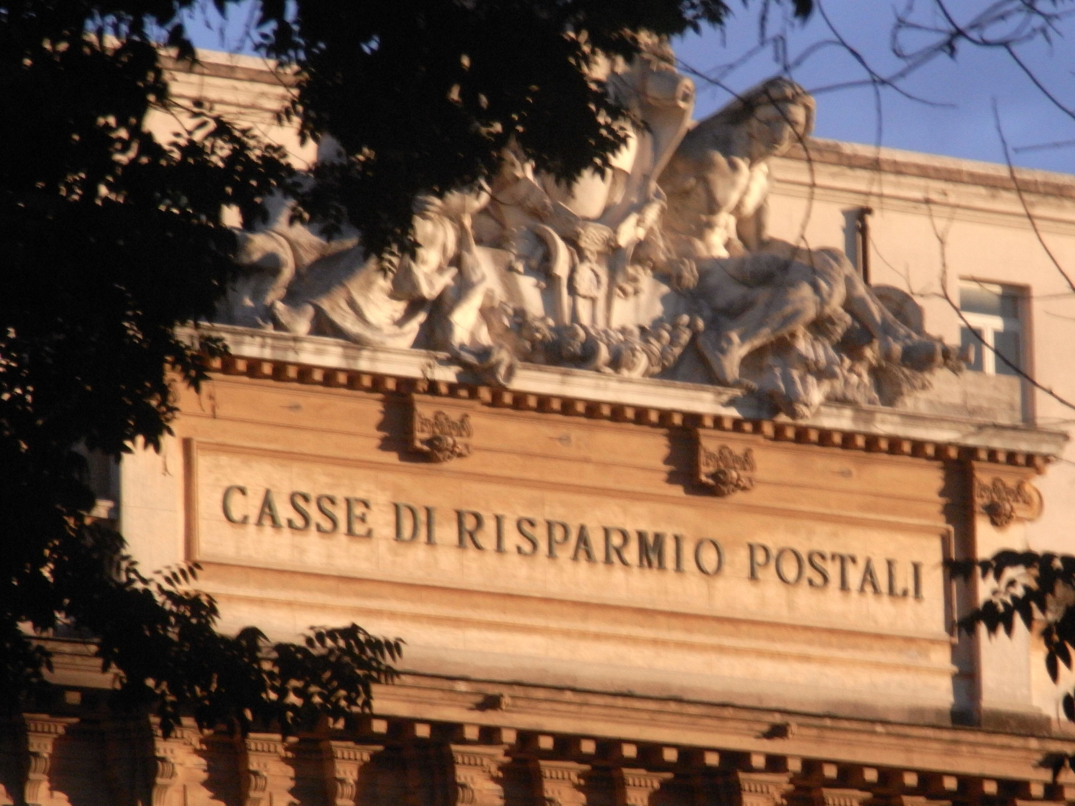 Cassa di Rispario